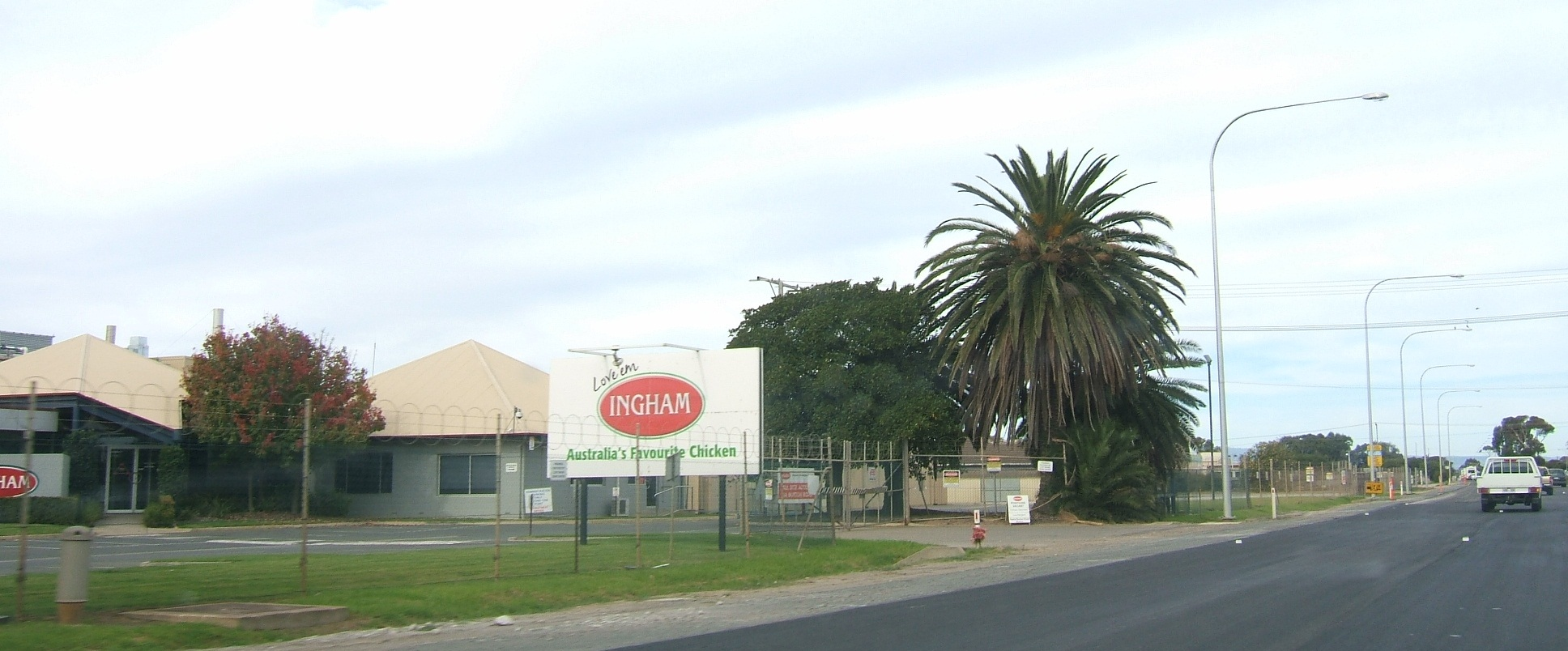 Ingham Factory, Burton, Adelaide